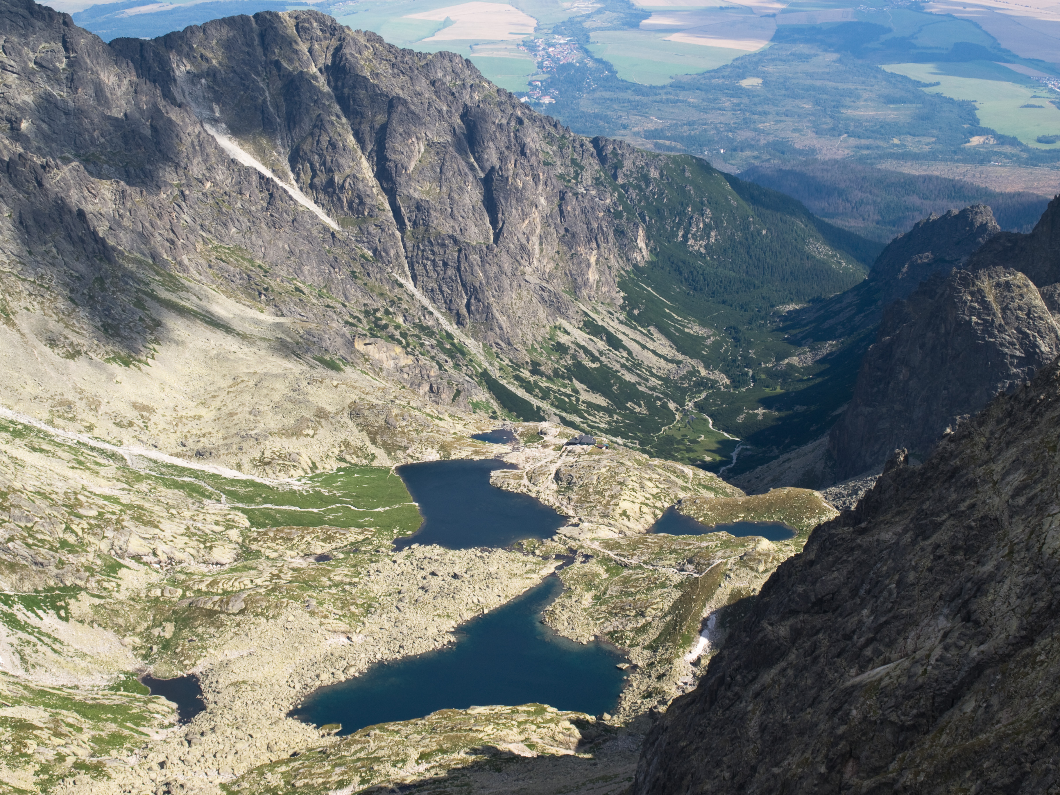 Päť Spišských plies seen from Ľadový štít